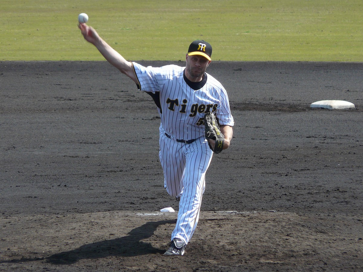 Jason Standridge, pitcher of the Hanshin Tigers, at Hanshin Naruohama Baseball Ground.